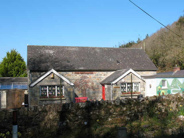 Primary school in Cwm Gwaun A tiny school in a deep valley. A nice place to sit and doze through lessons.